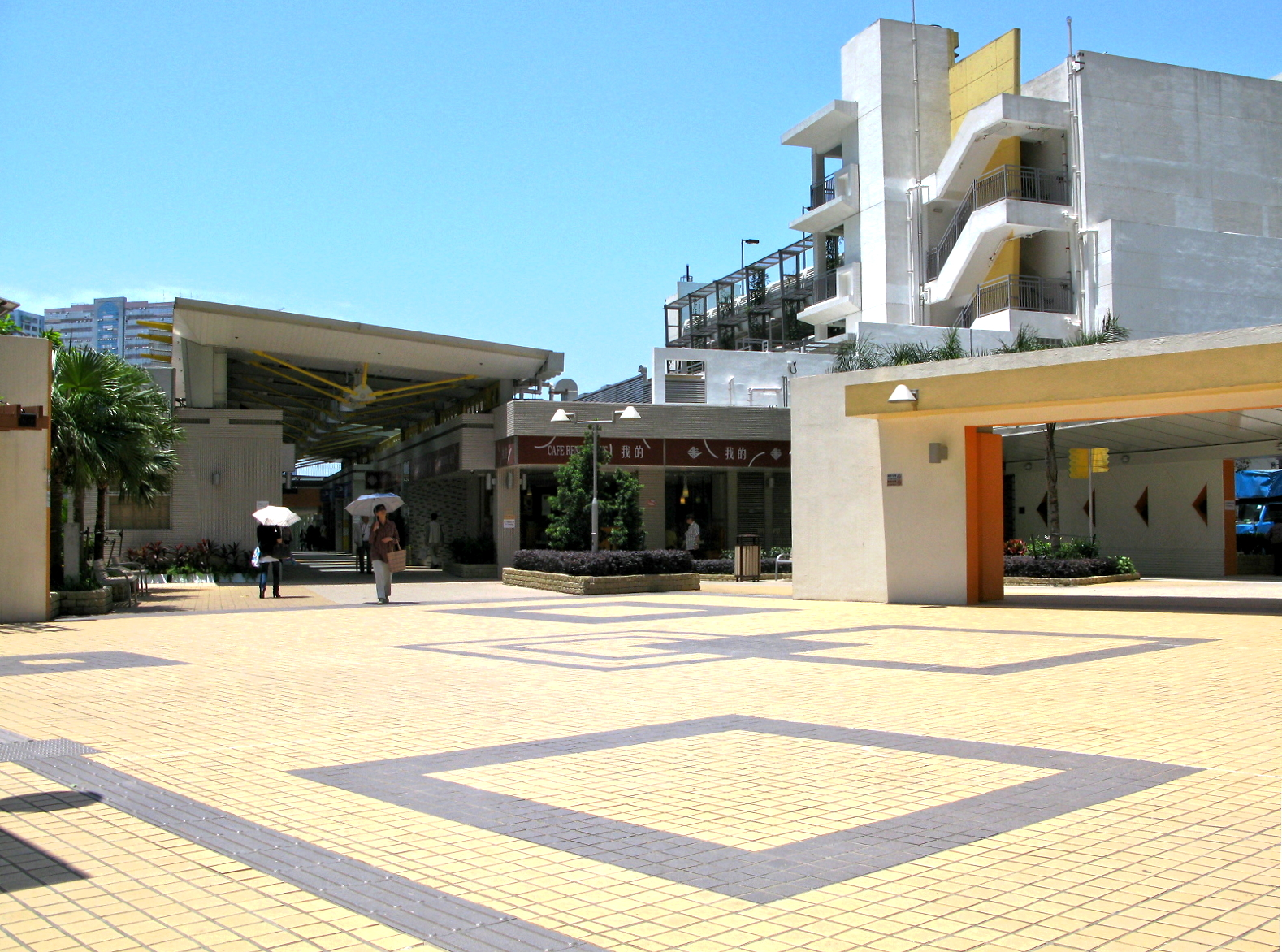 Choi Ying Estate 彩盈邨